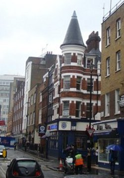 View of PizzaExpress Jazz Club, corner of Dean Street and Carlisle Street, Soho, London